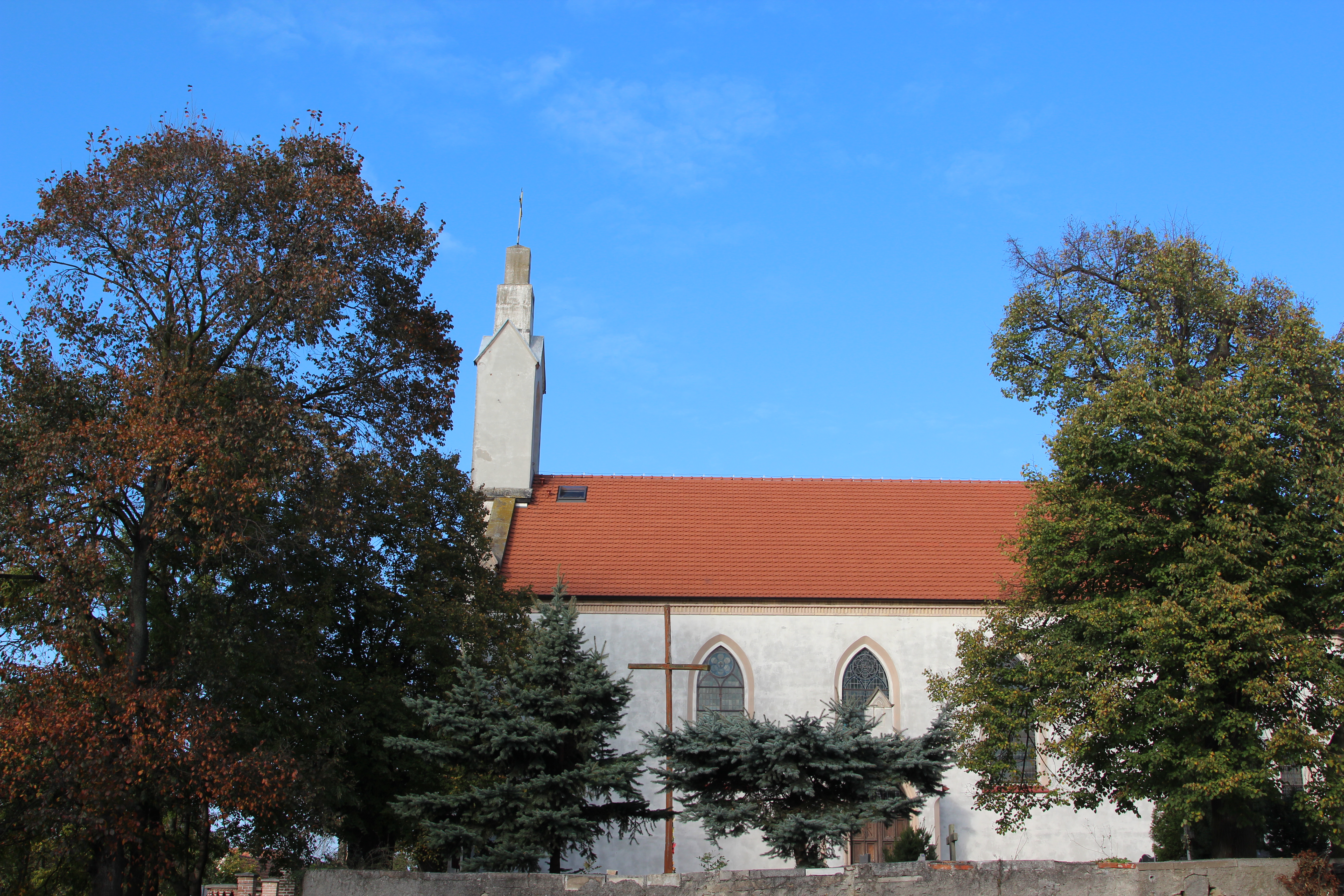 Sacred Heart church in Wągrodno